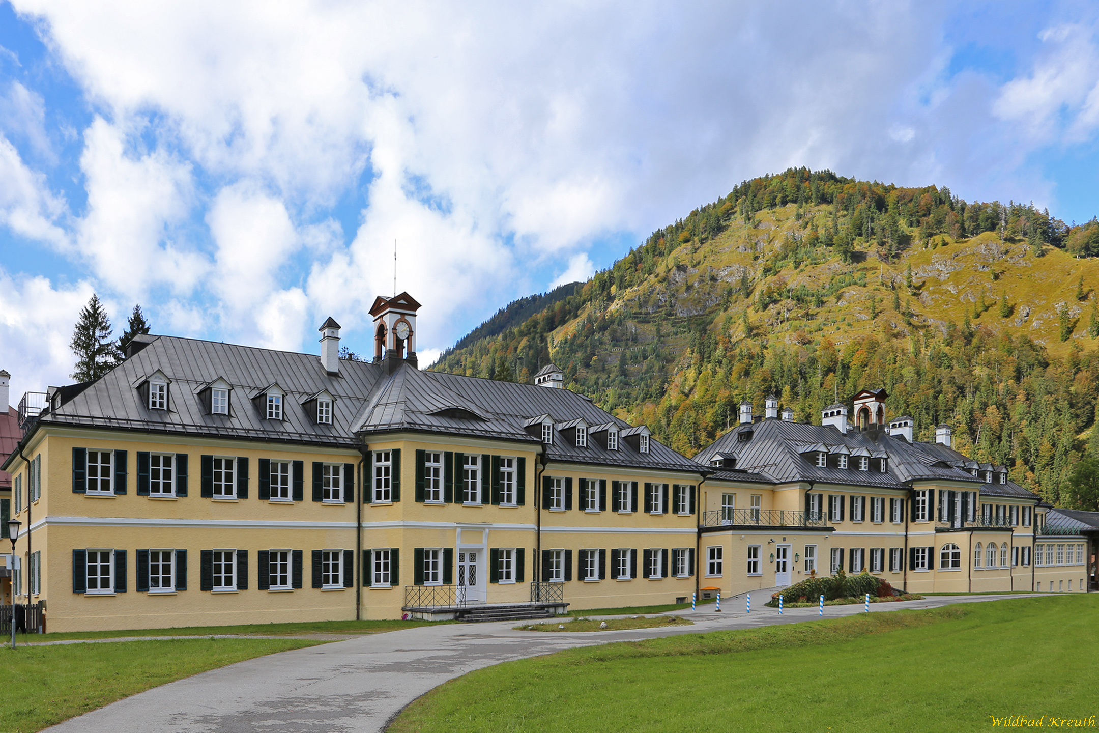 Wildbad Kreuth - a former spa resort is located near Tegernsee and is a district of Kreuth (Germany).